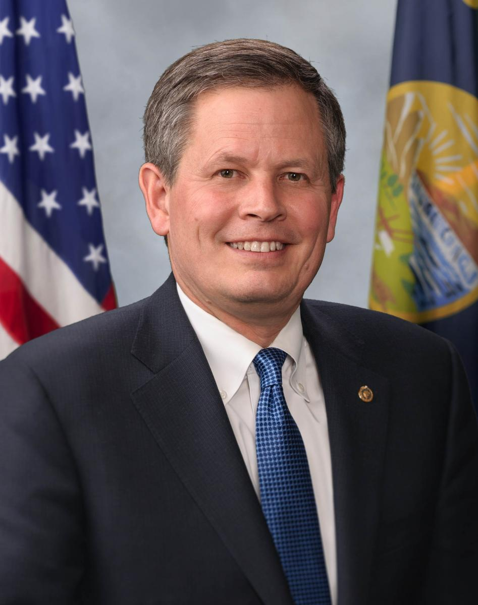 Steve Daines official Senate photo, 114th Congress